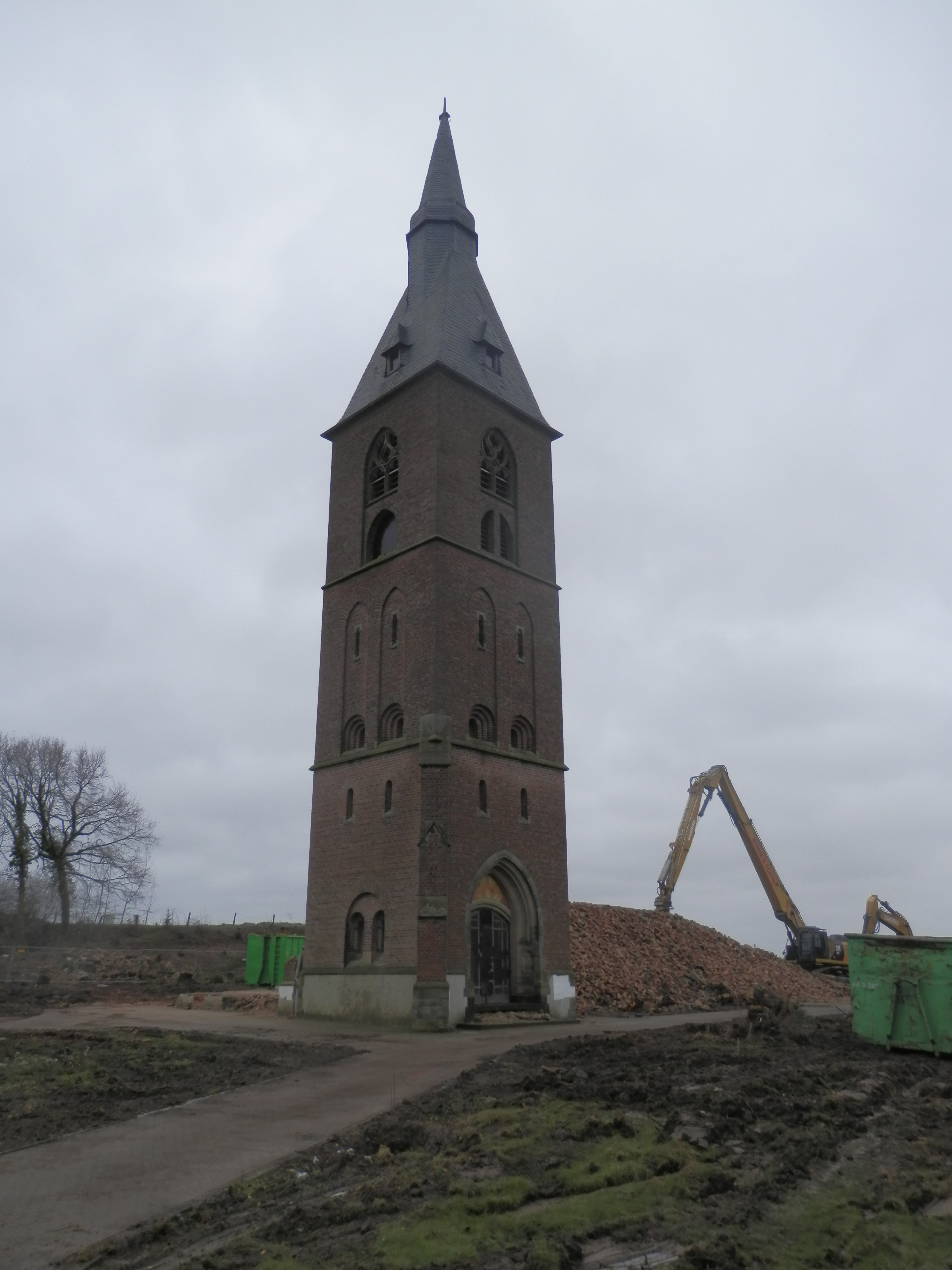 Destruction of St. Martin, Borschmich, 2016-02